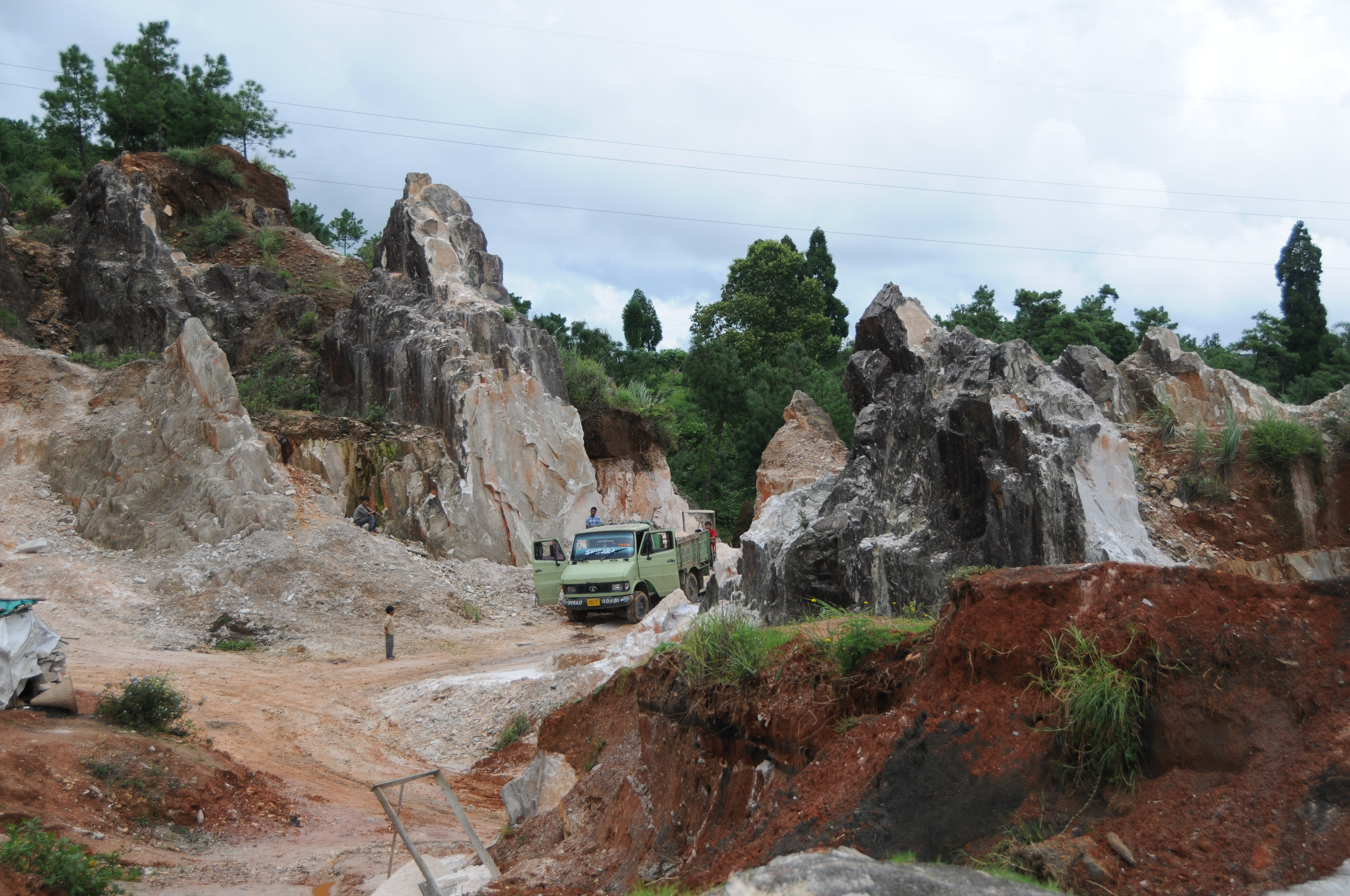 Small scale mining of marble stones